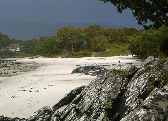 The Sands at Morar